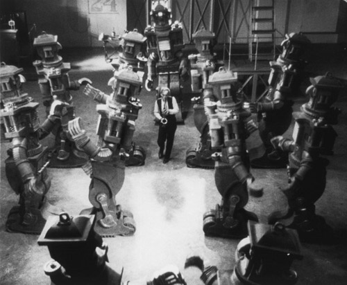 A scene from Soviet film "Loss of sensation", 1935